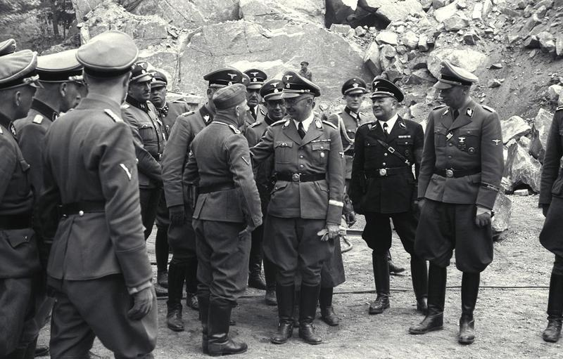 Information added by Wikimedia users.English (translation of German caption): Concentration camp Mauthausen, visit of Heinrich Himmler .. Austria. Himmler with officers of the Waffen-SS in the Gusen or Mauthausen stone quarry.